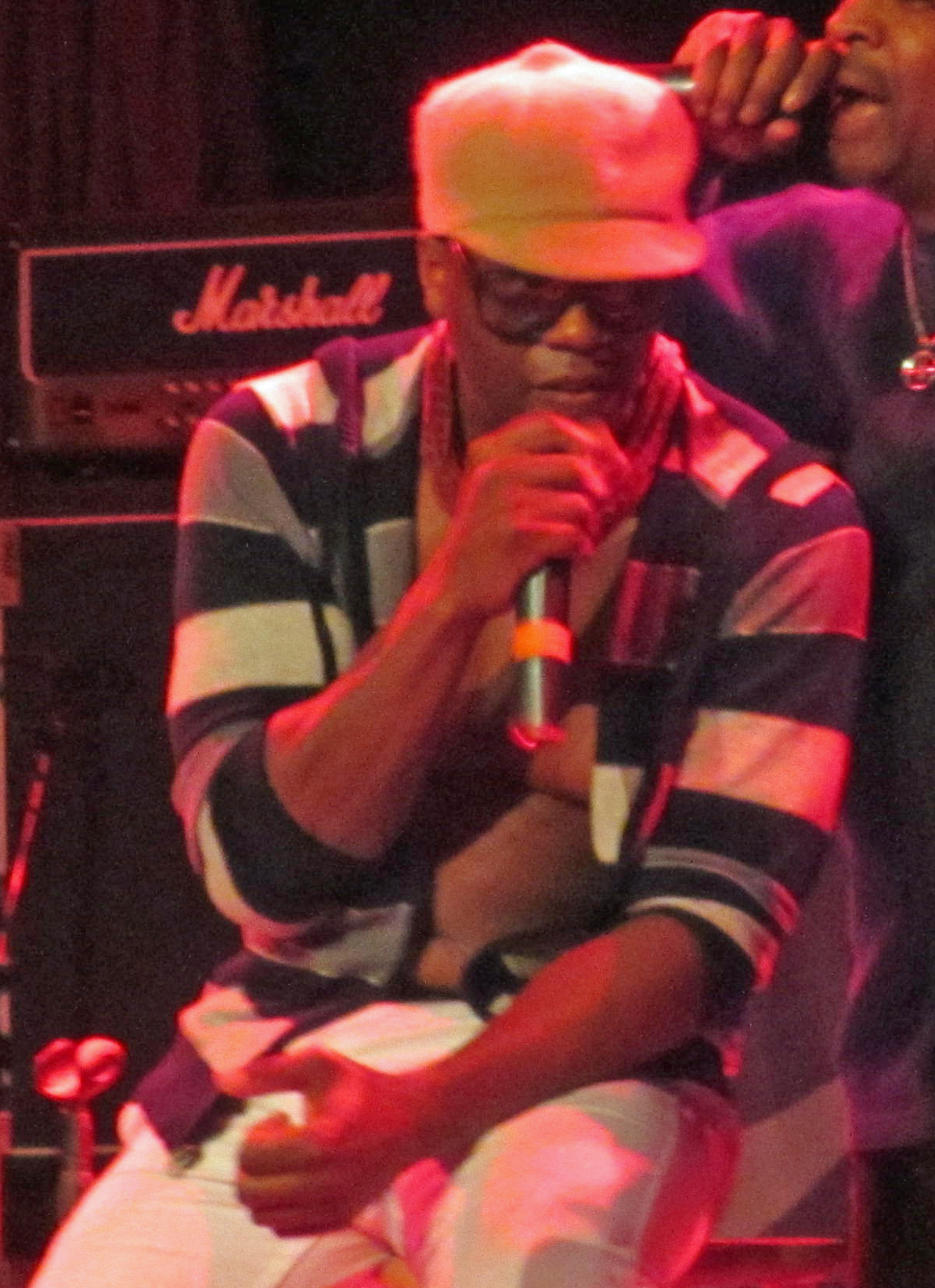 Schooly D at the House of Blues in Chicago in 2012.